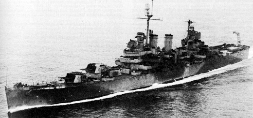 The U.S. Navy light cruiser USS Phoenix (CL-46) underway in 1944. She is painted in Camouflage Measure 32, Desigh 5D.